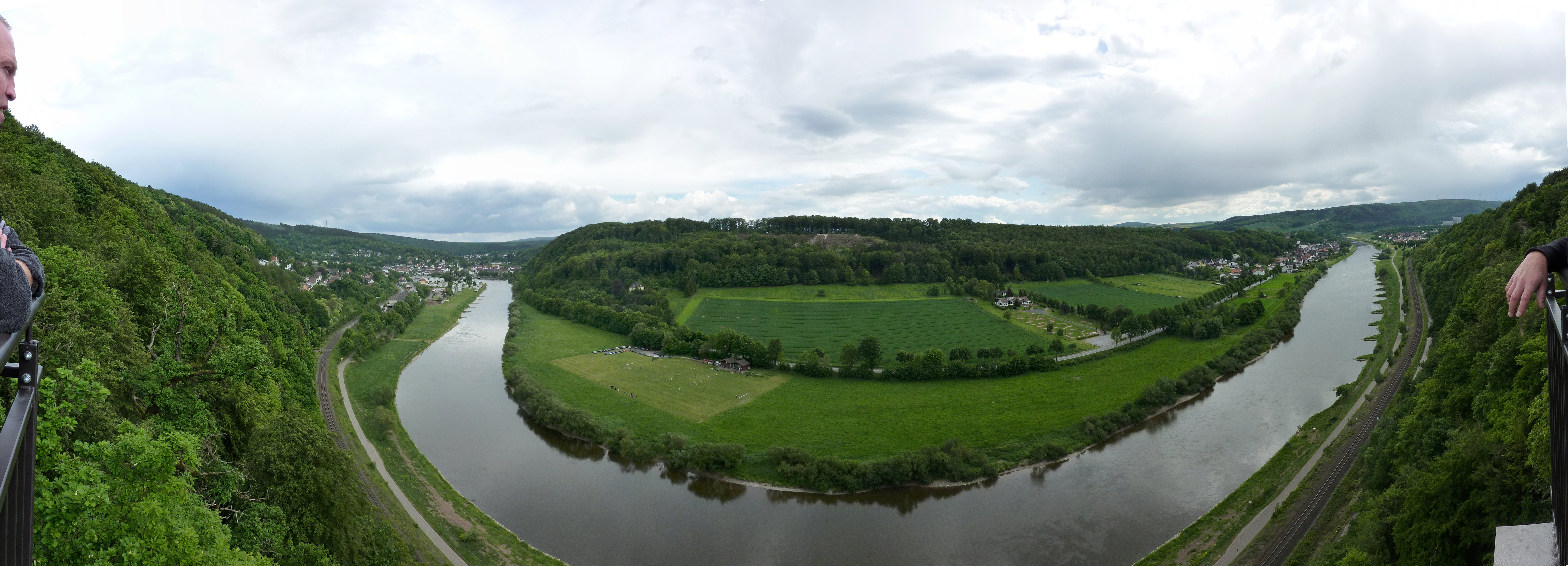 Panorama view from the new "Weser Skywalk" at Hanover Cliffs in Beverungen-Würgassen (District of Höxter, North Rhine-Westphalia, Germany) showing the valley of river Weser. On the left Bad Karlshafen, on the right Beverungen-Herstelle. On the far right the town of Würgassen with the nuclear power plant Würgassen behind.